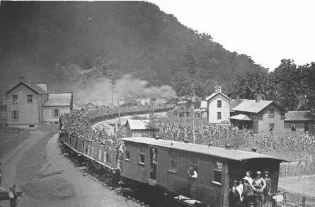 Convicts and soldiers placed on a railroad train by striking miners and taken out of the Coal Creek Valley during the Coal Creek War in Anderson County, Tennessee, United States. The convicts had been brought into the valley by the mine owners to break a strike by free miners.